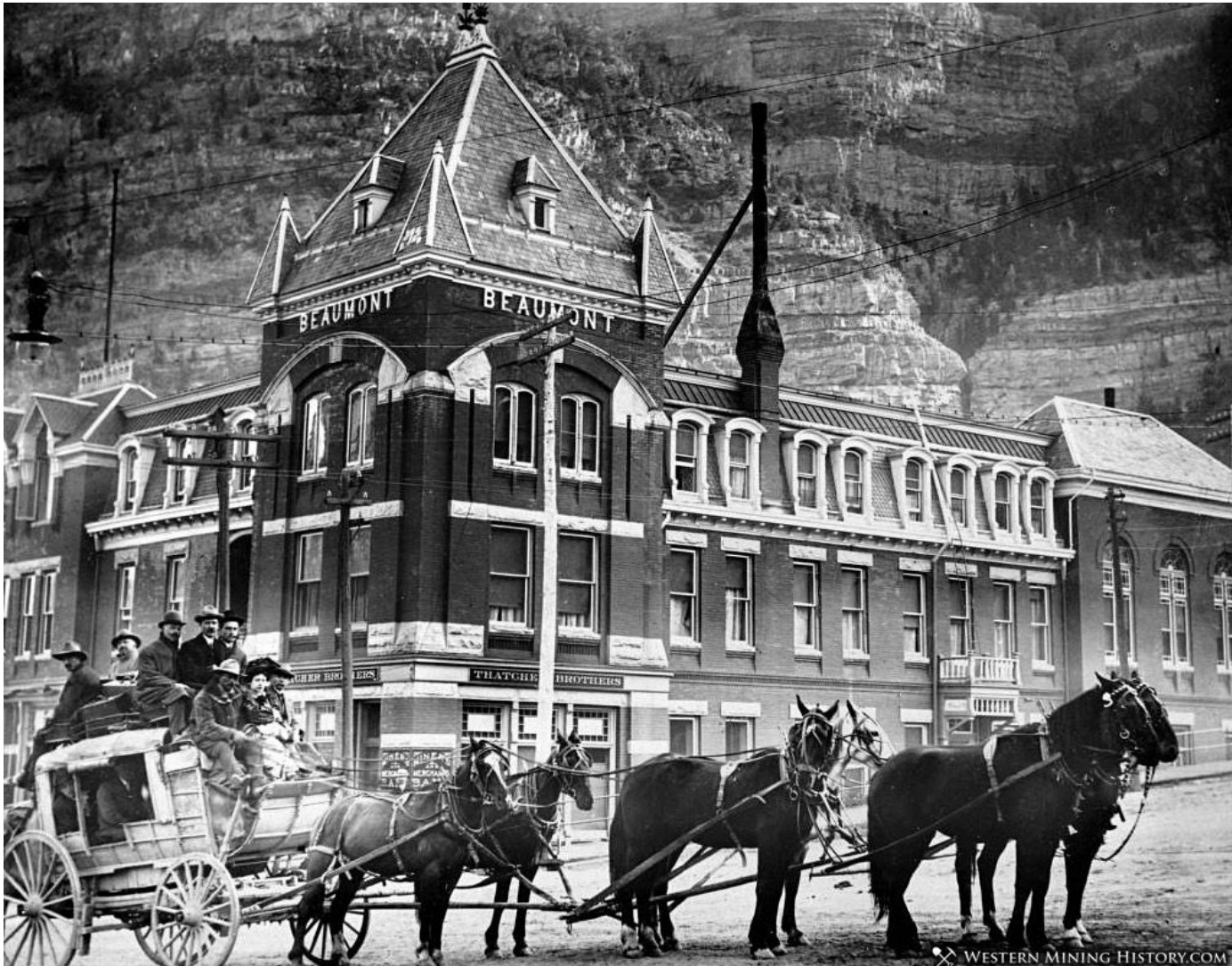 Stagecoach in front of the Beaumont Hotel Ouray, Colorado ca 1890